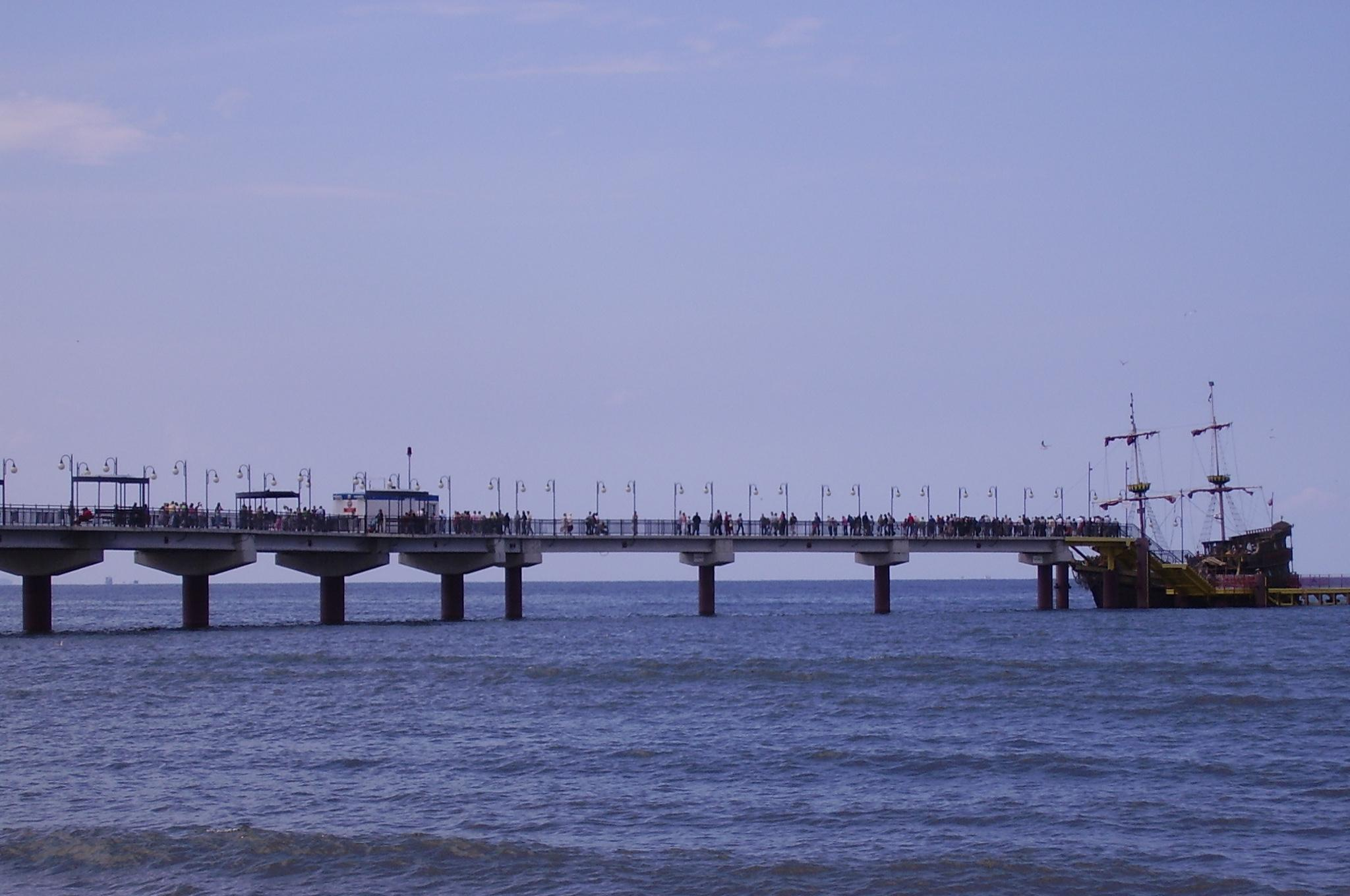 Marina and border checkpoint in Międzyzdroje (Poland)